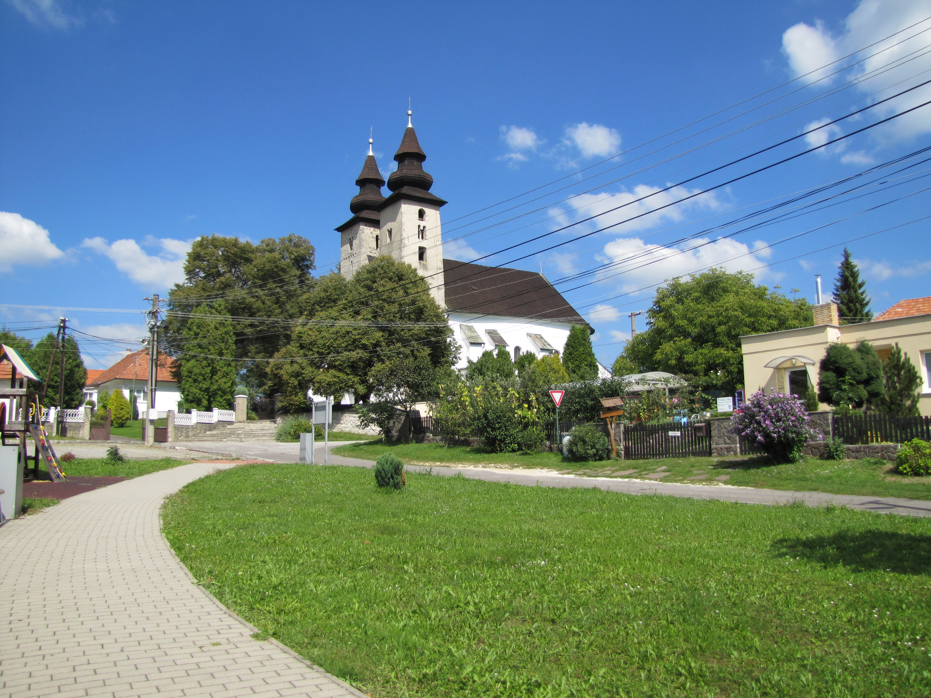 All Saints church in Diviaky nad Nitricou, Slovakia.